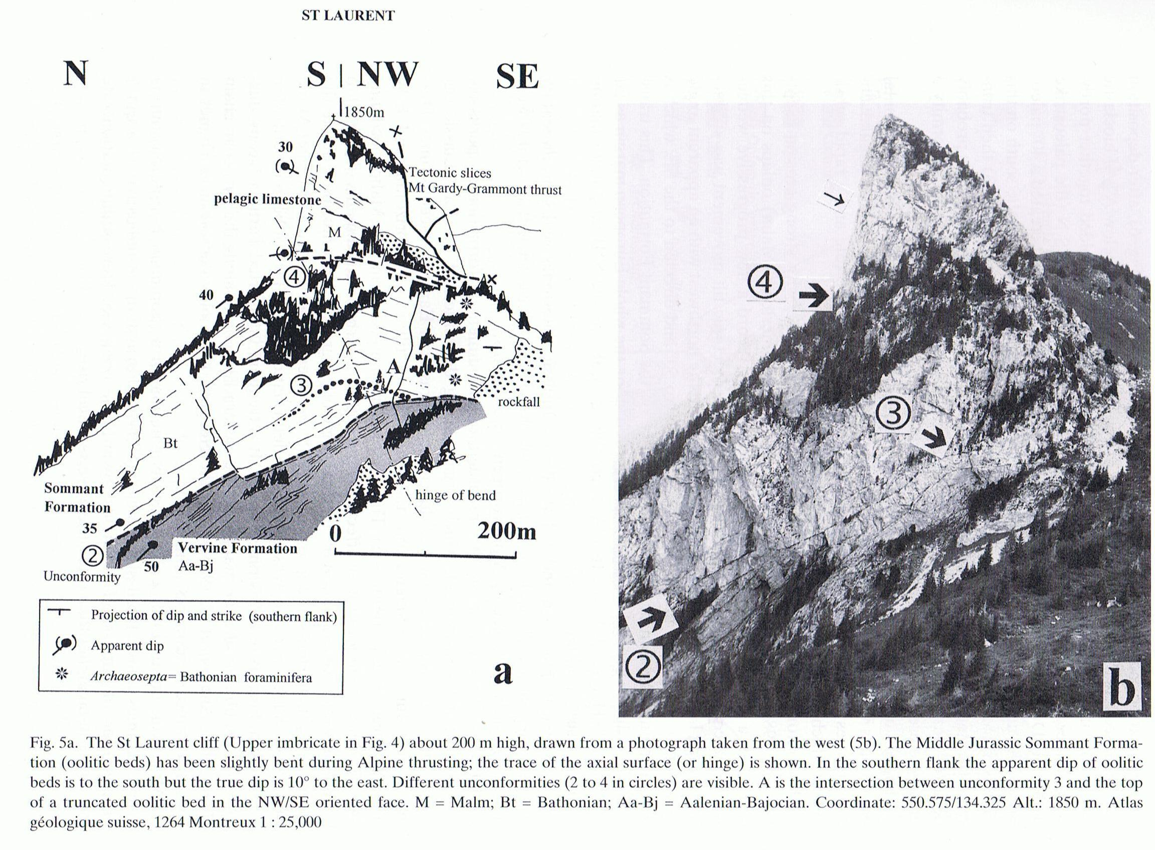 Septfontaine M.(1995): Large scale progressive unconformities in Jurassic strata of the Prealps S of lake Geneva; interpretation as synsedimentary inversion structures; paleotectonic implications.- Eclogae geol. Helv., 88/3, 553-576. The classical rift derived "tilted blocks" model in a distensive passive margin (Lemoine et coll., Baud et Septfontaine, 1980) of the Briançonnais domain, during middle and late Jurassic, is refuted, A new palinspastic interpretation, based on solid field data, is proposed and should be discussed in modern papers.